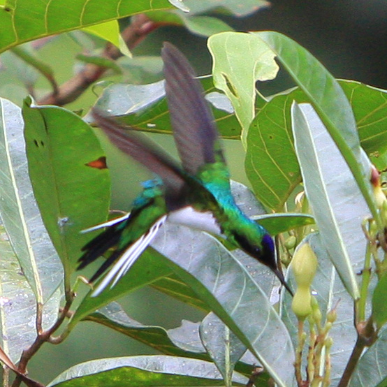 All the references say this species has a green back, and this one is blue. Still, I believe this is right. This bird is reaching into a flower, and